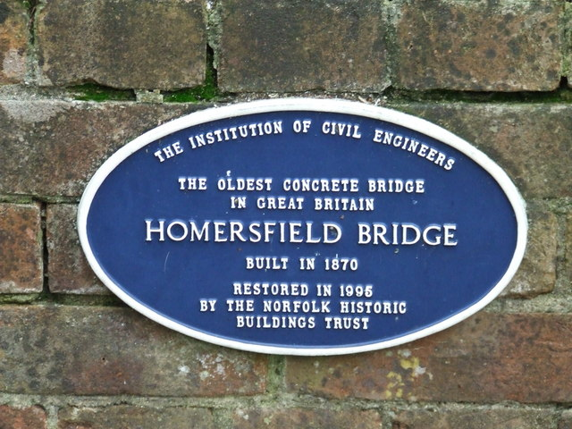 Britains Oldest Concrete Bridge Plaque on Homersfield Bridge Suffolk stating that it is the oldest concrete bridge in Great Britain built in 1870 and restored for view of the bridge